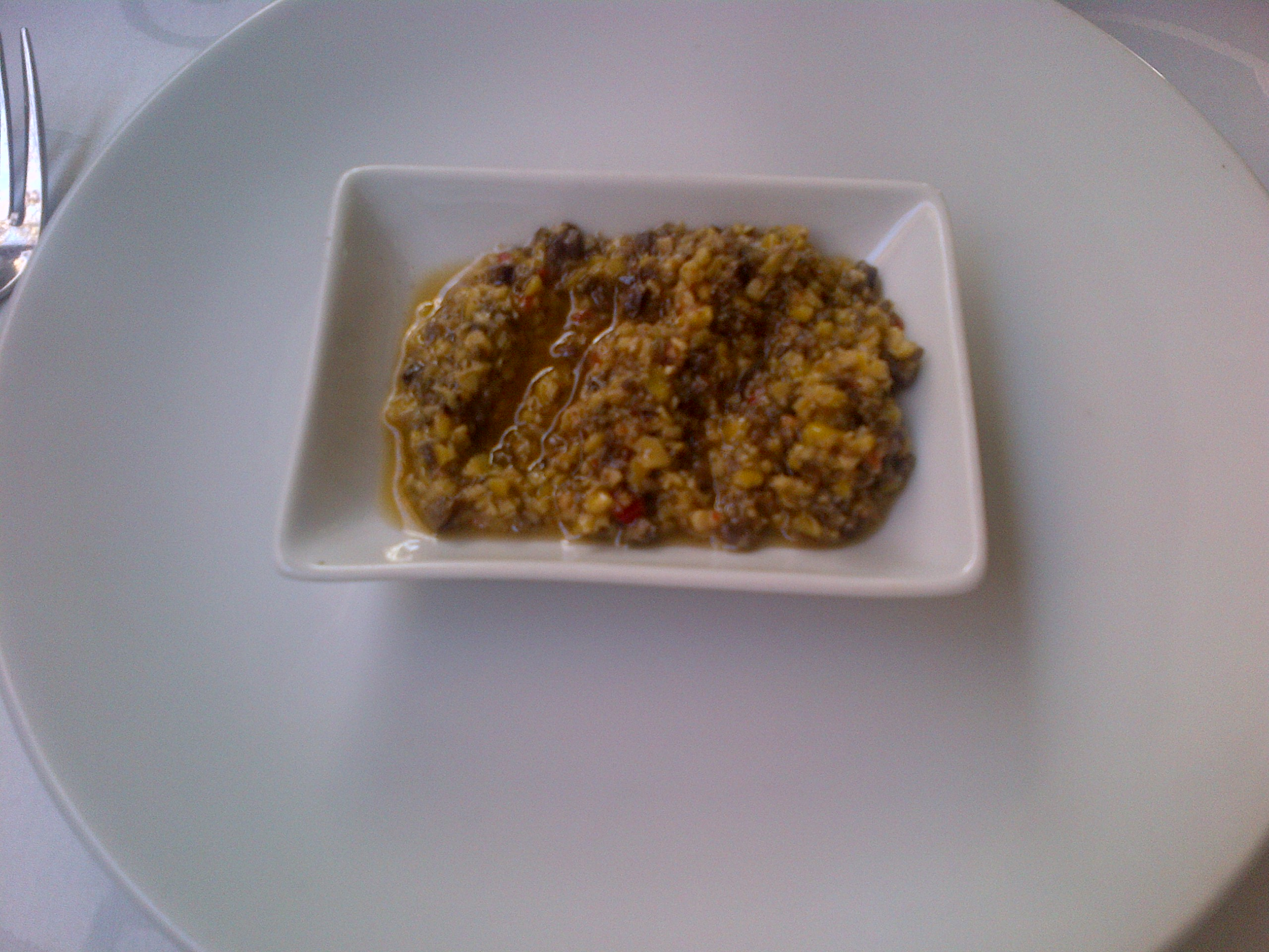 "Sızma" is a green olive salad, which may also be eaten as a meze, from the cuisine of Gaziantep in southeastern Turkey.